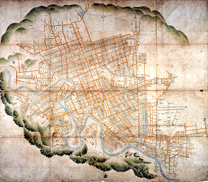 a map of the Sendai Castle and the capital city of the Sendai Domain drawn in the early Edo period